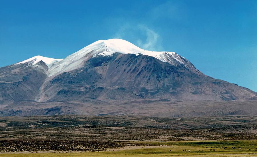 Fumarole activity can be observed in the crater of Guallatiri, while underground noises are also quite common.